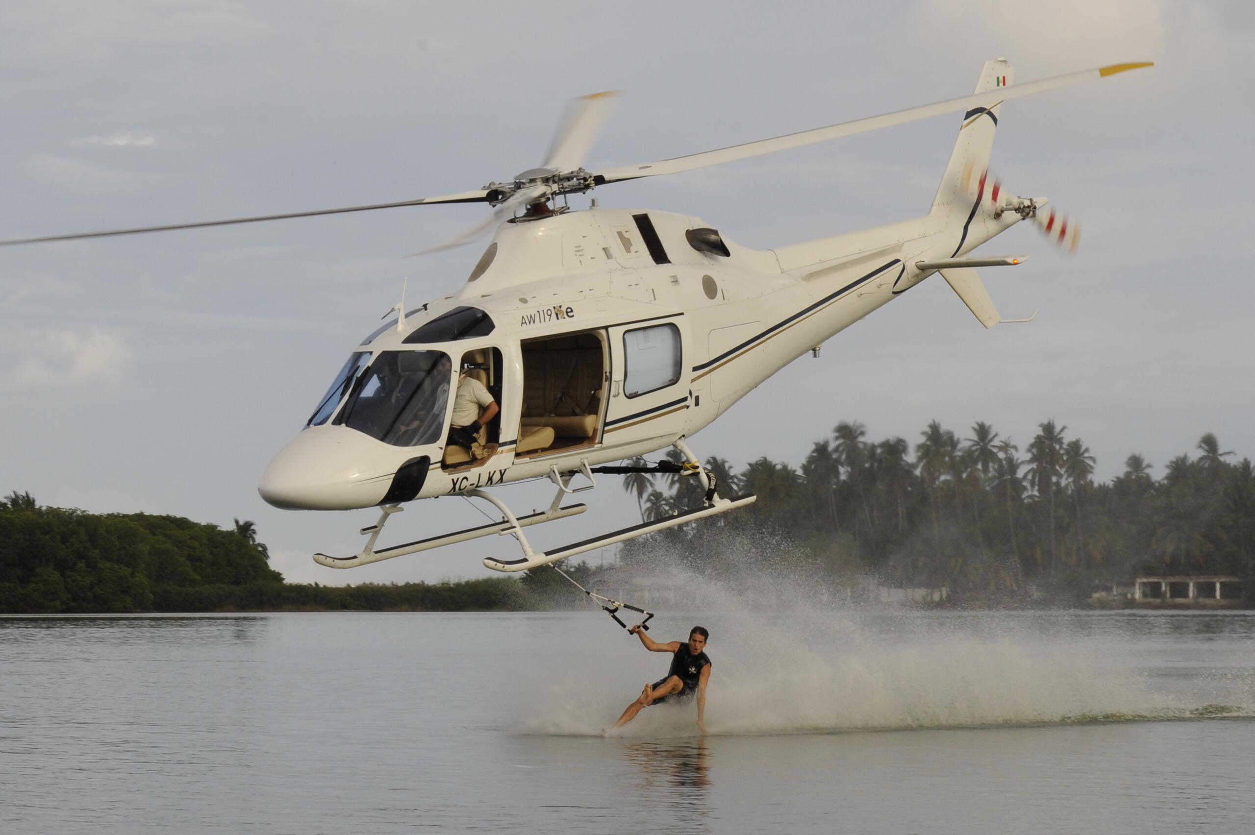 FERNANDO REINA IGLESIAS BREAKING THE WORLD RECORD ON BAREFOOT SKIING.